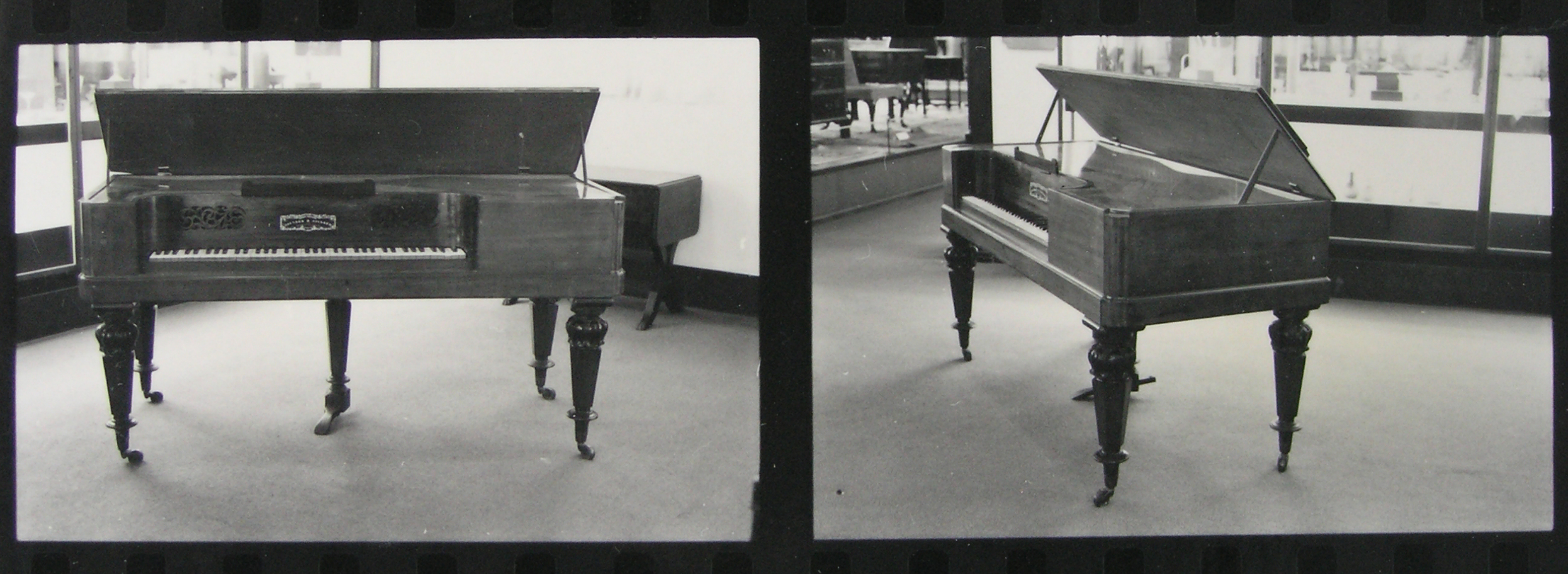 Piano, square, patent, repeater, extended six octave compass F1 to G4